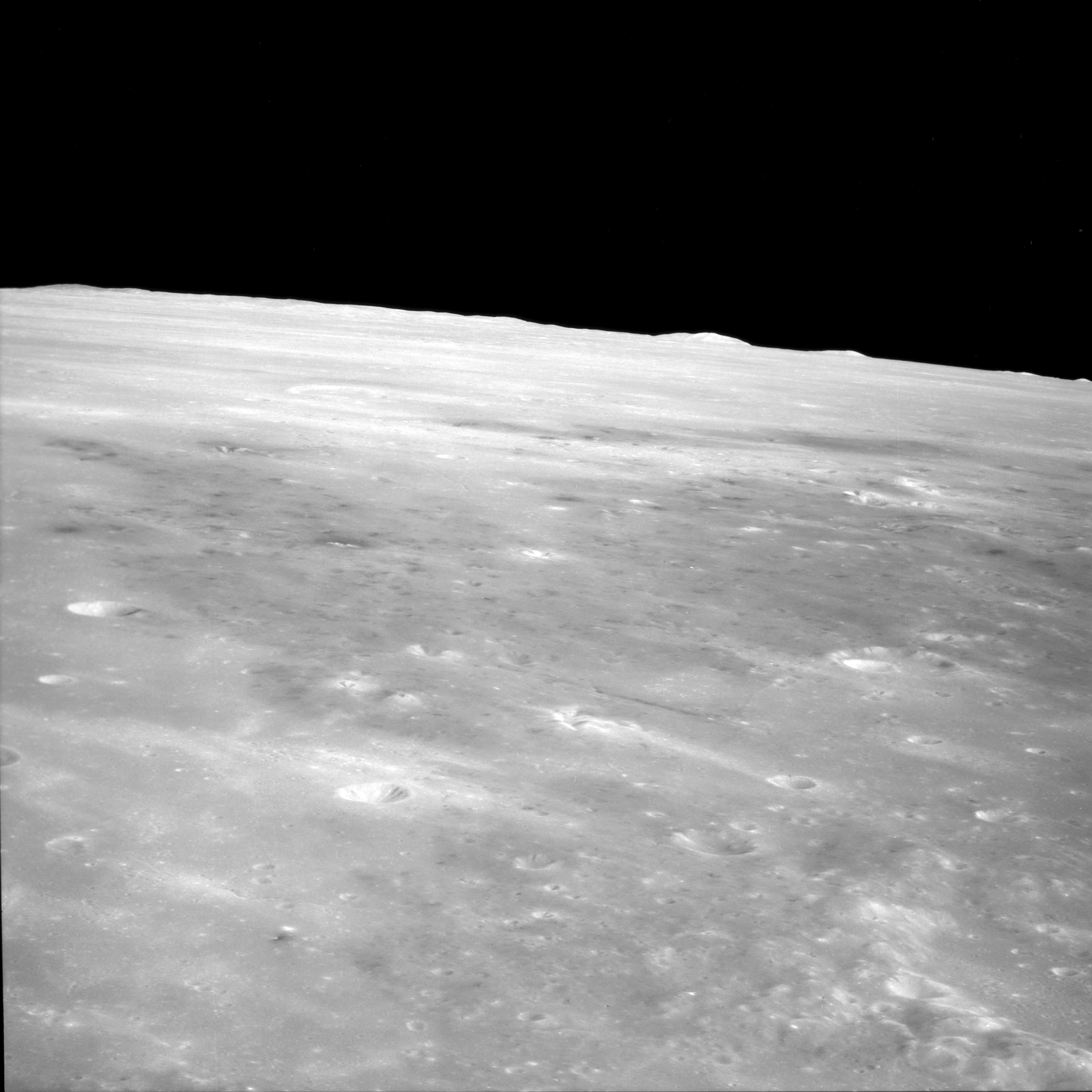 Dark mantle deposits (probably, resuls of volcanic explosions) on the southern shore of Sinus Aestuum on the Moon. The deposits cover a darker region in the central and lower right part of the image. They are best seen where excavated by small craters. In the lower right corner part of heavily eroded crater Schröter can be seen. View from the south; the mountains on the horizon are Montes Apenninus. Descriptions: Gaddis et al. (1985), Weitz et al. (1998). Photo by Apollo 12 (1969).